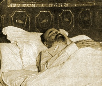 Emile Zola dead in september 1902